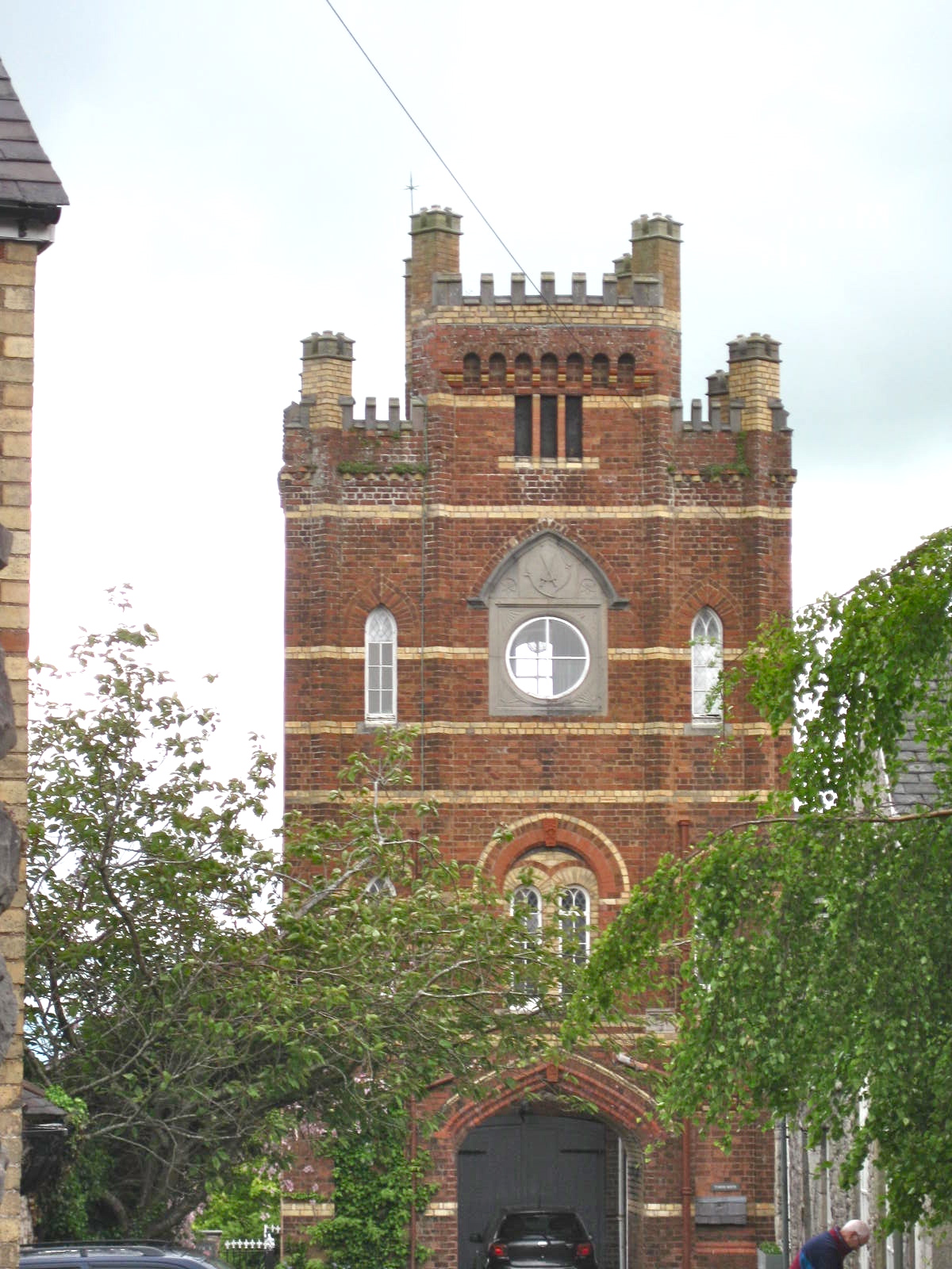 Plas Castell Gatehouse, Denbigh